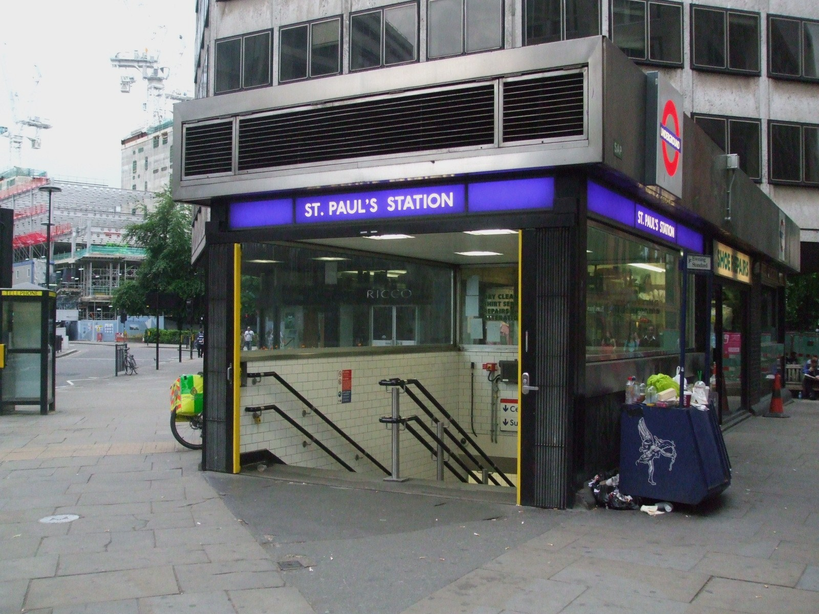 St Paul's tube station main entrance, after recent refurbishment.